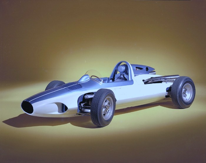 CERV I